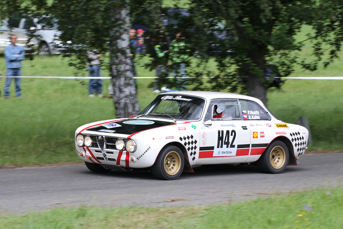 H42 Petr Hustý - Oto Kuhn (CZE) - Alfa Romeo 1750GTAm / group 2 / 1971 replica 2012, Rally Bohemia 2012